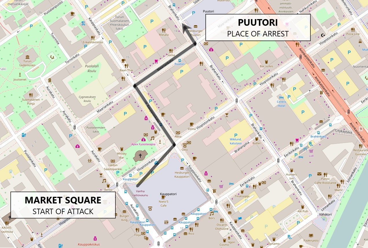 Route of the stabbing attack at Market Square and Puutori, Turku, Finland, on 18 August 2017